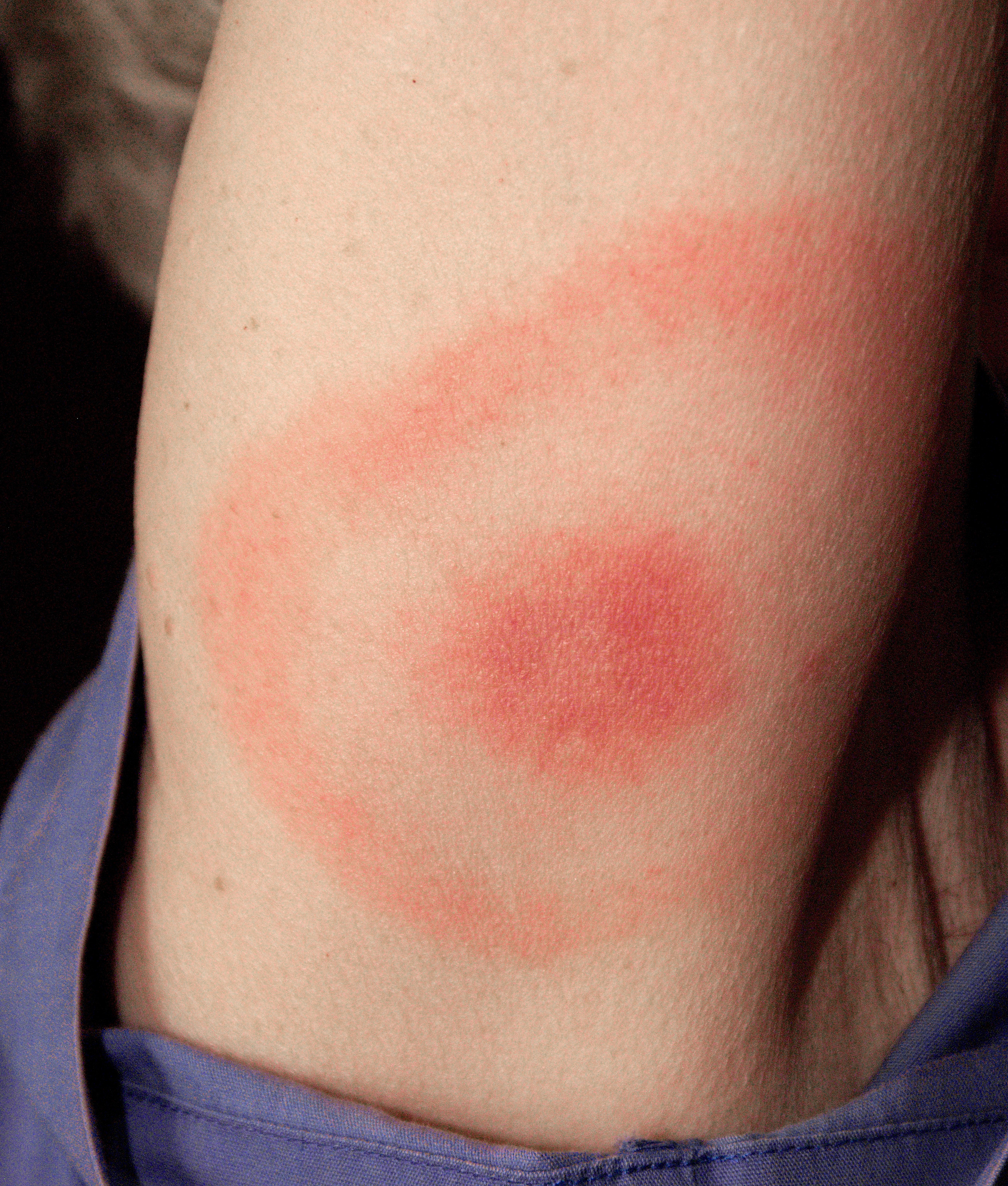 This 2007 photograph depicts the pathognomonic erythematous rash in the pattern of a “bull’s-eye”, which manifested at the site of a tick bite on this Maryland woman’s posterior right upper arm, who’d subsequently contracted Lyme disease. Lyme disease patients who are diagnosed early, and receive proper antibiotic treatment, usually recover rapidly and completely. A key component of early diagnosis is recognition of the characteristic Lyme disease rash called erythema migrans. This rash often manifests itself in a “bull's-eye” appearance, and is observed in about 80% of Lyme disease patients. (added 2017 : "but similar symptoms are observed in other illnesses not caused by Borrelia burgdorferi infection, such as southern tick–associated rash illness, which has not yet been tied to a specific pathogen"[1],[2]) Lyme disease is caused by the bacterium Borrelia burgdorferi, and is transmitted to humans by the bite of infected blacklegged ticks. Typical symptoms include fever, headache, fatigue, and as illustrated here, the characteristic skin rash called erythema migrans. If left untreated, infection can spread to joints, the heart, and the nervous system. Note that there are a number of PHIL images related to this disease and its vectors.